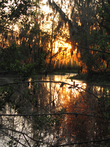 The Barataria Preserve is a beautiful and environmentally-fragile ecosystem that provides a home for many unique animal and plant species. The Spanish Moss creates a dreamscape as the late-afternoon light filters through.